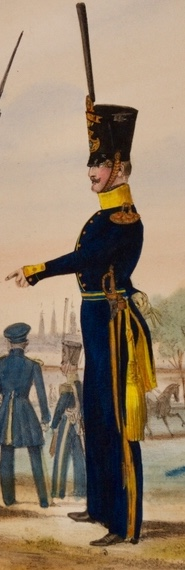 Tillhör Armemuseum